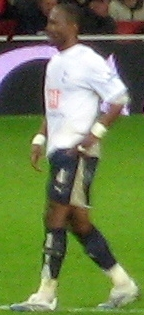 Didier Zokora. Image cropped from original at flickr.